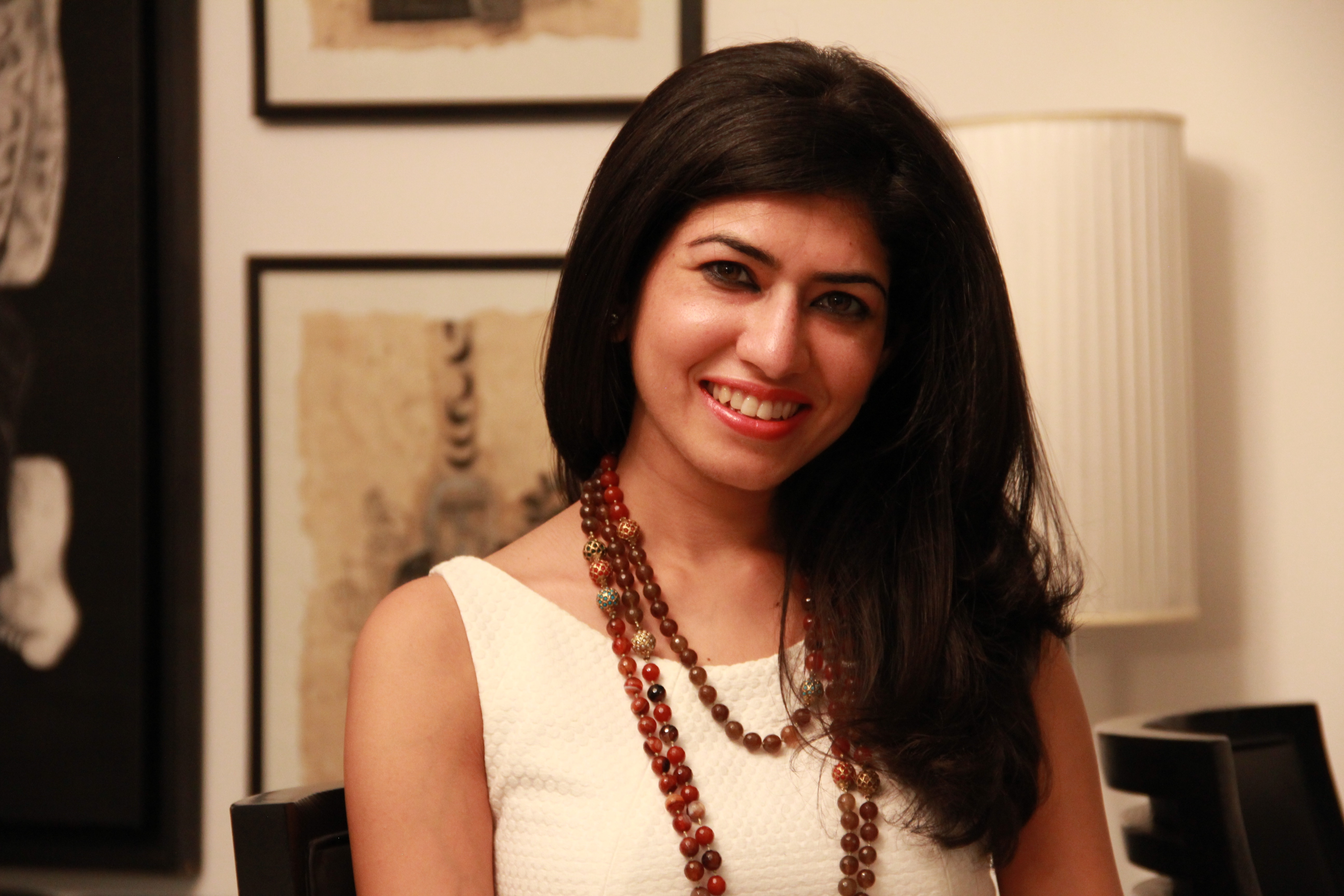 Swati Bhargwawa at the Cashkaro Office